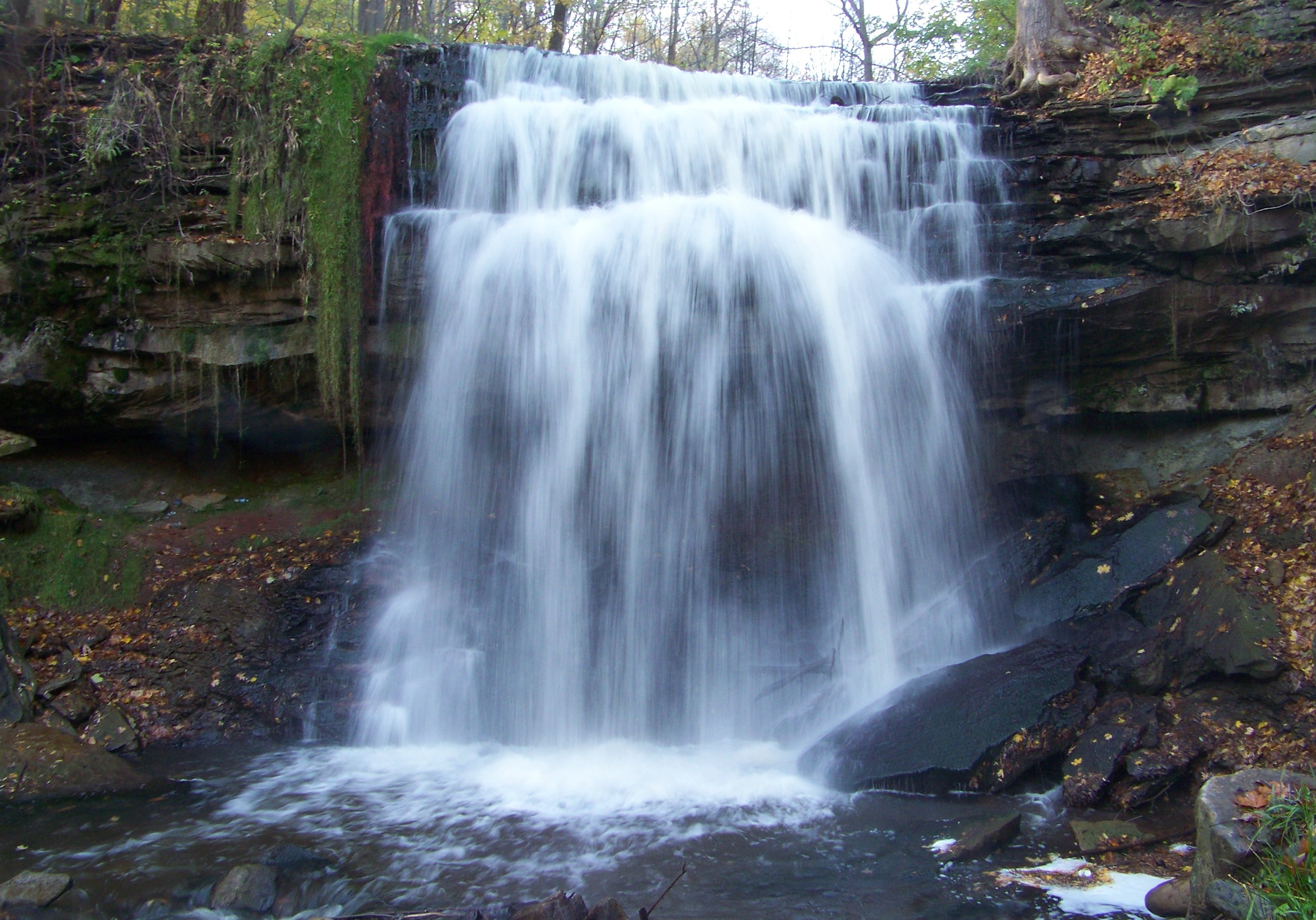 Great Falls in Hamilton, Ontario, Canada.